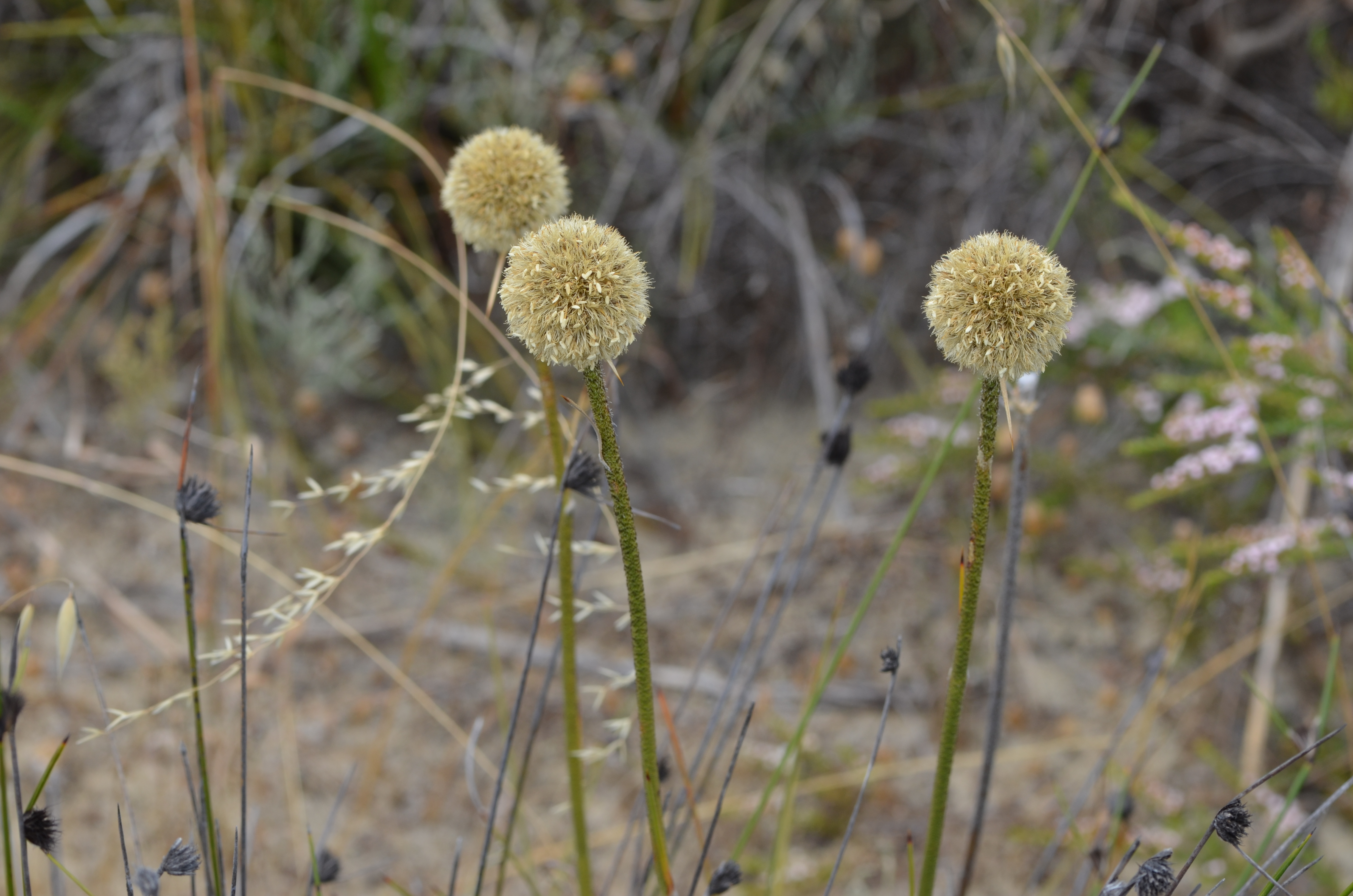 Dasypogon bromeliifolius, Kensington, Perth, Western Australia